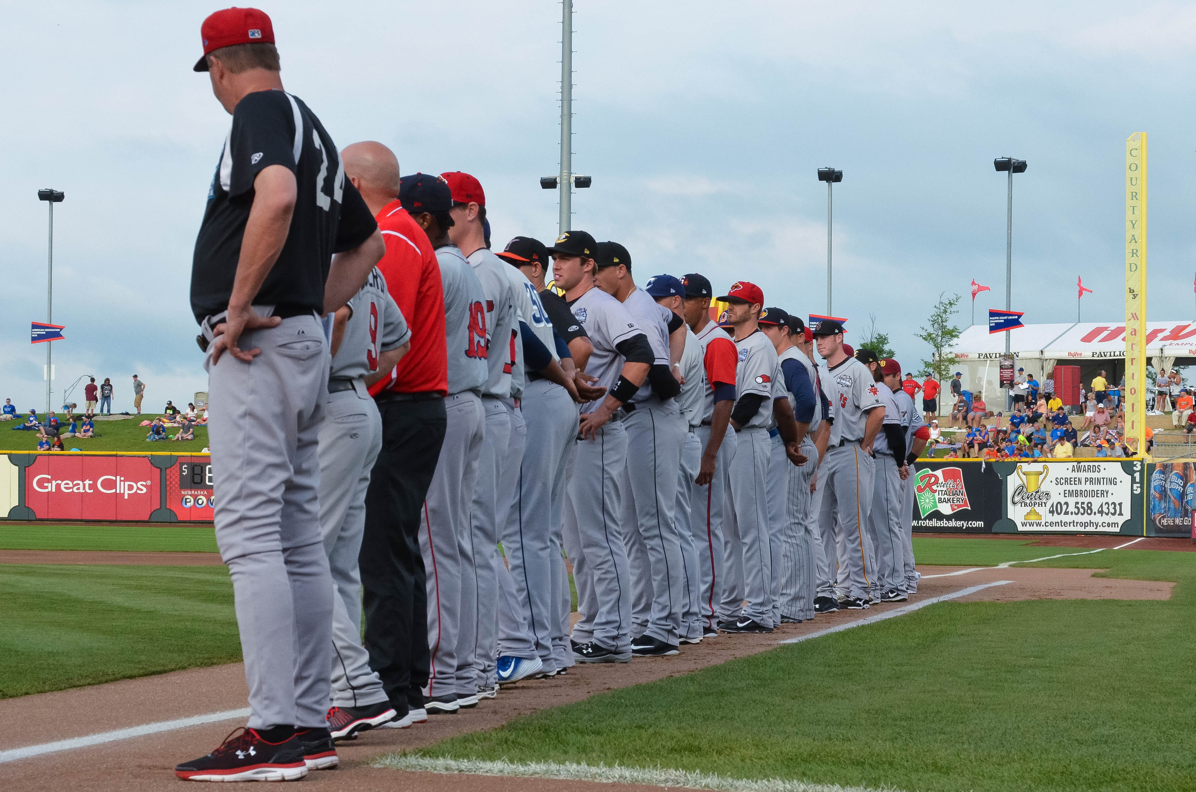 Minda Haas | 2015 USAGE INSTRUCTIONS: You are welcome to share or publish to your own site or social media account, but you MUST credit me, Minda Haas, or by my Twitter handle (@minda33) or Instagram (minda.haas).